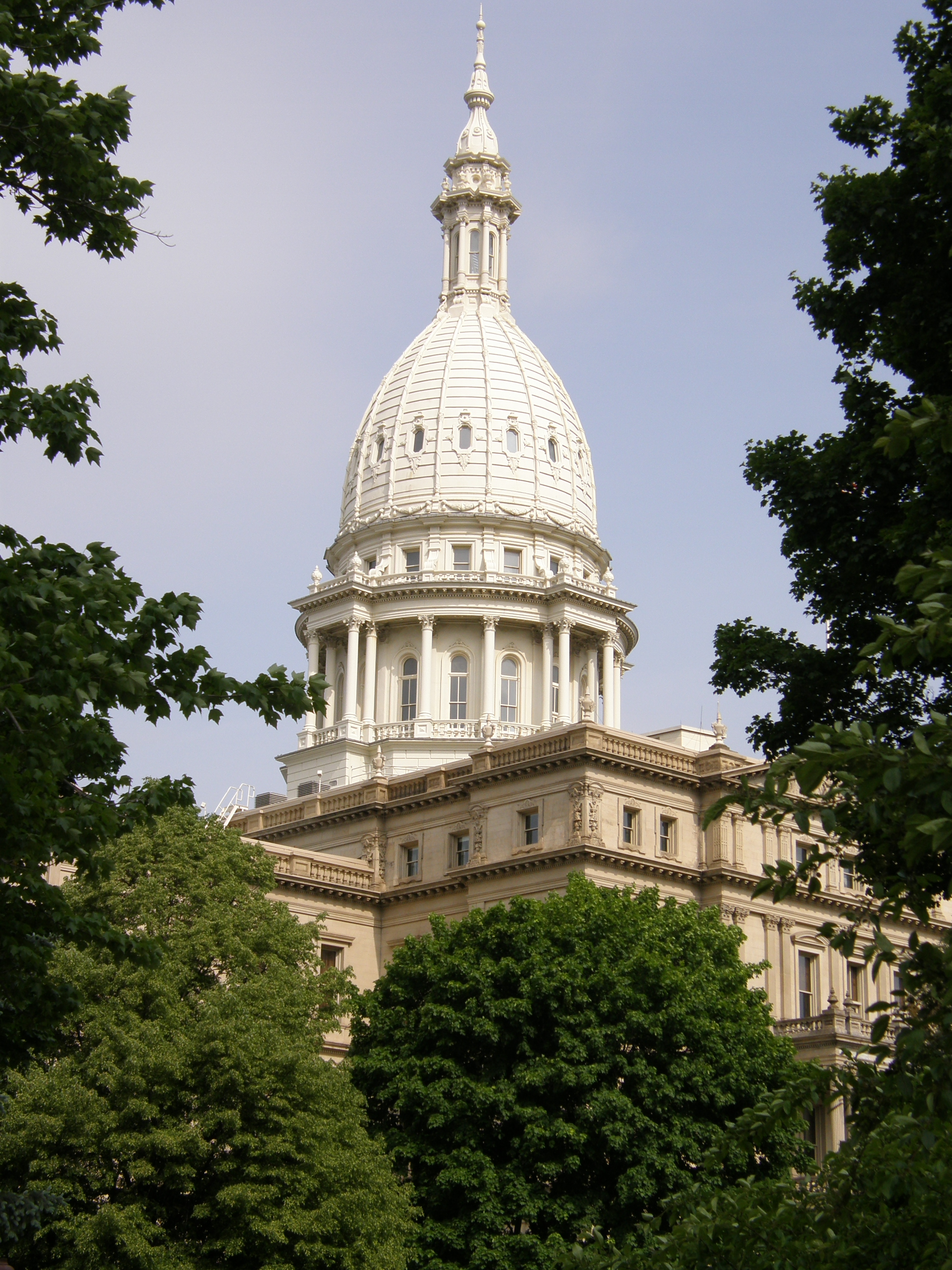 The Neoclassical dome of the Michigan State Capitol.